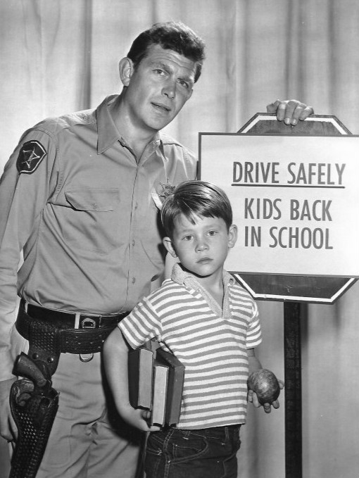 Publicity photo of Andy Griffith and Ron Howard from the television program The Andy Griffith Show. The photo was to remind people when the show would return to the air with new episodes and to be careful driving because it was now school time.